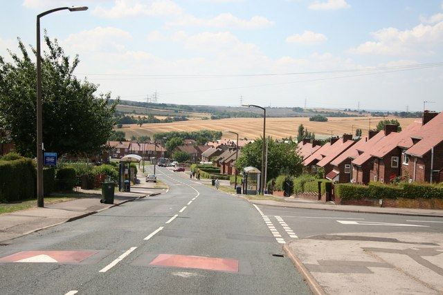 Addison Road. View down the hill at Maltby